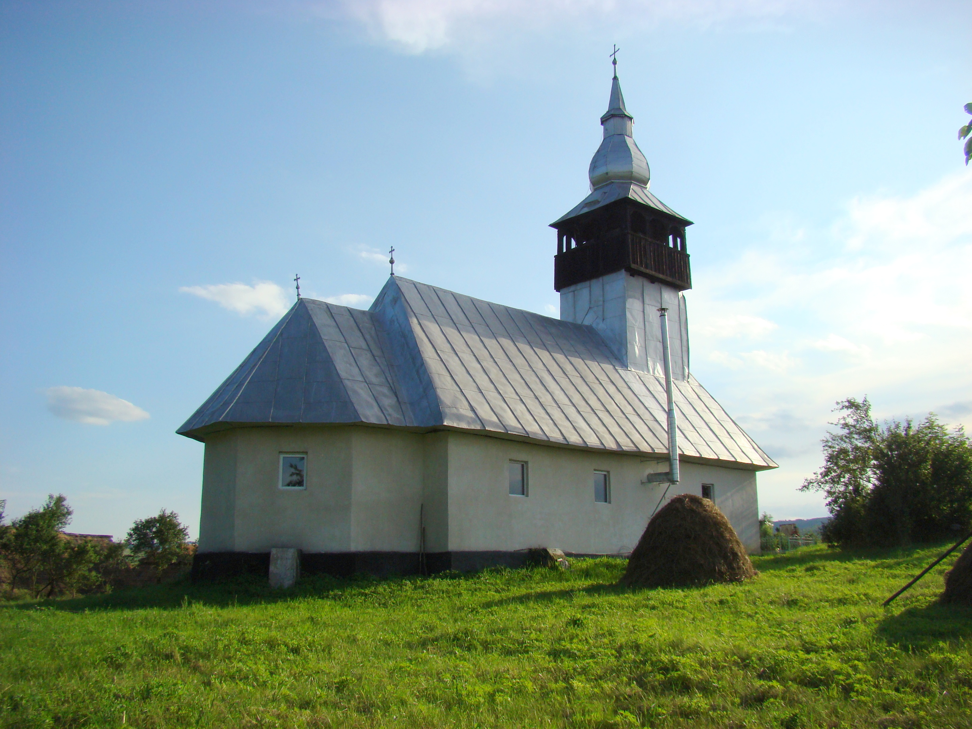 Wooden church in Petreștii de Mijloc, Cluj county, Romania